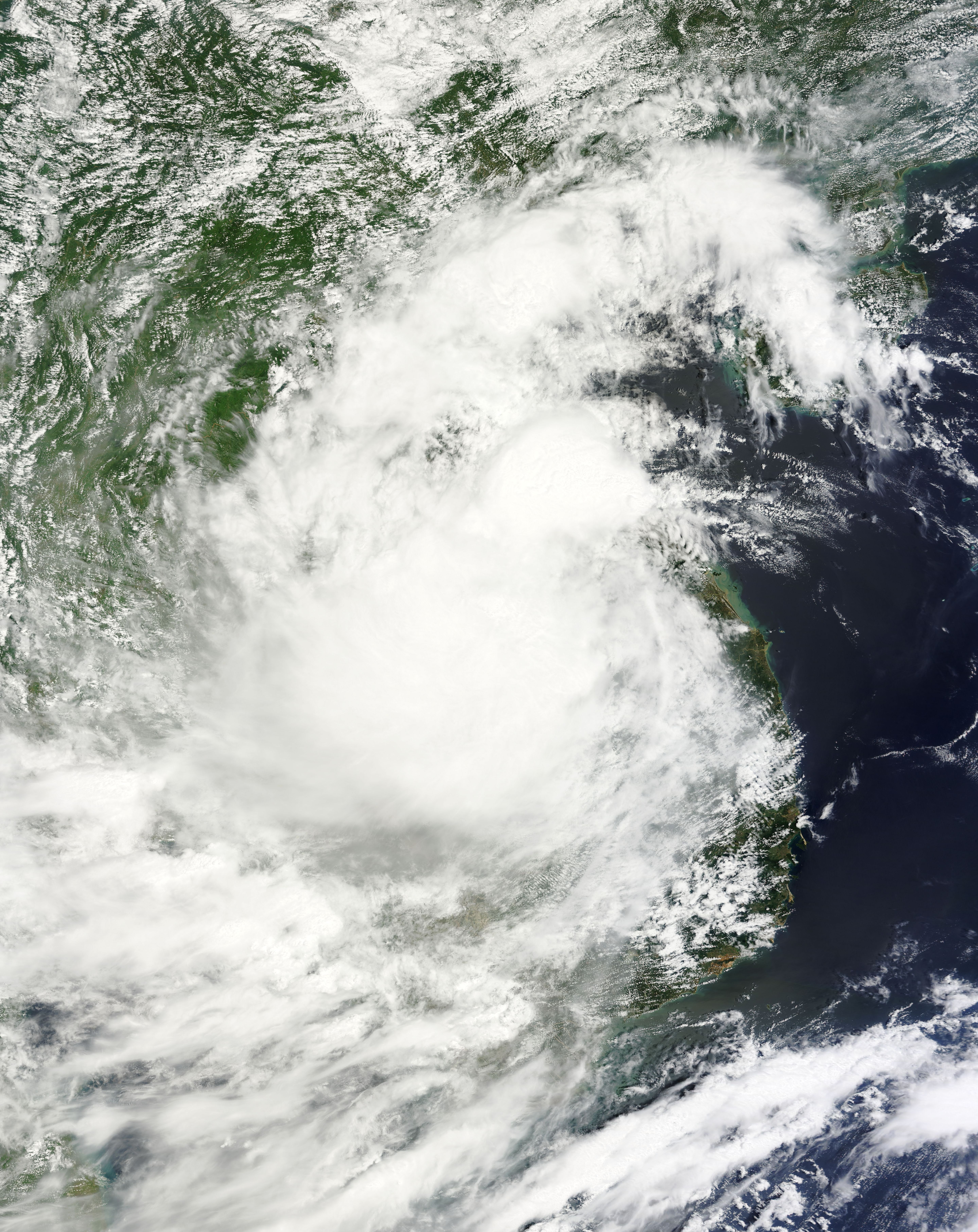 Tropical Storm Rai over land in Vietnam on September 13, 2016